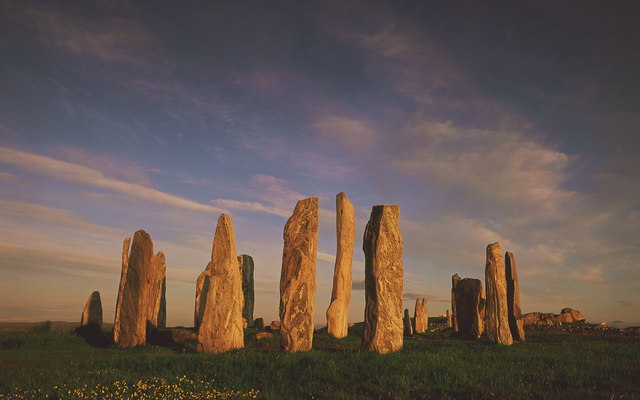 Callanish at sunset This was shot sometime just before 10pm